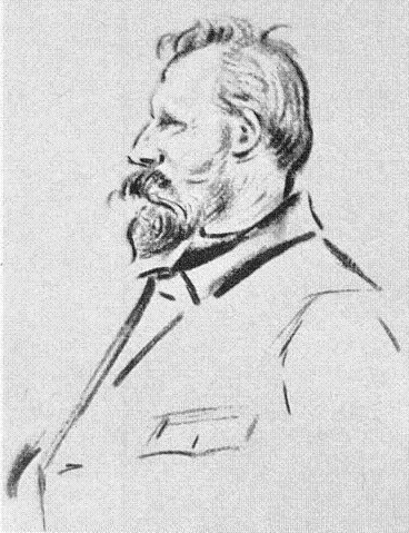 Porträt of the german sculptor August Kraus (1868-1934) by Heinrich Zille (1858-1929).